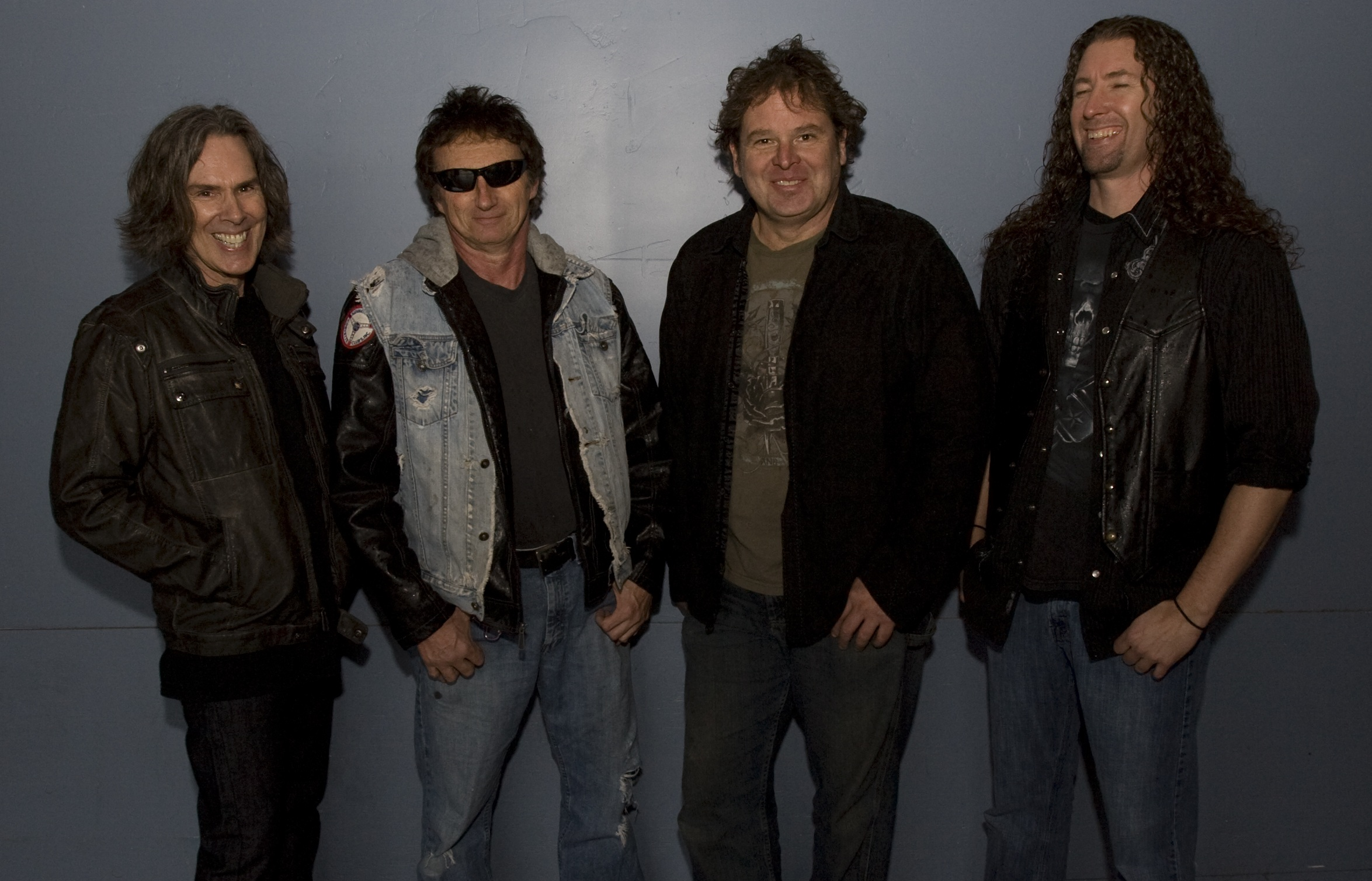 TRAUMA